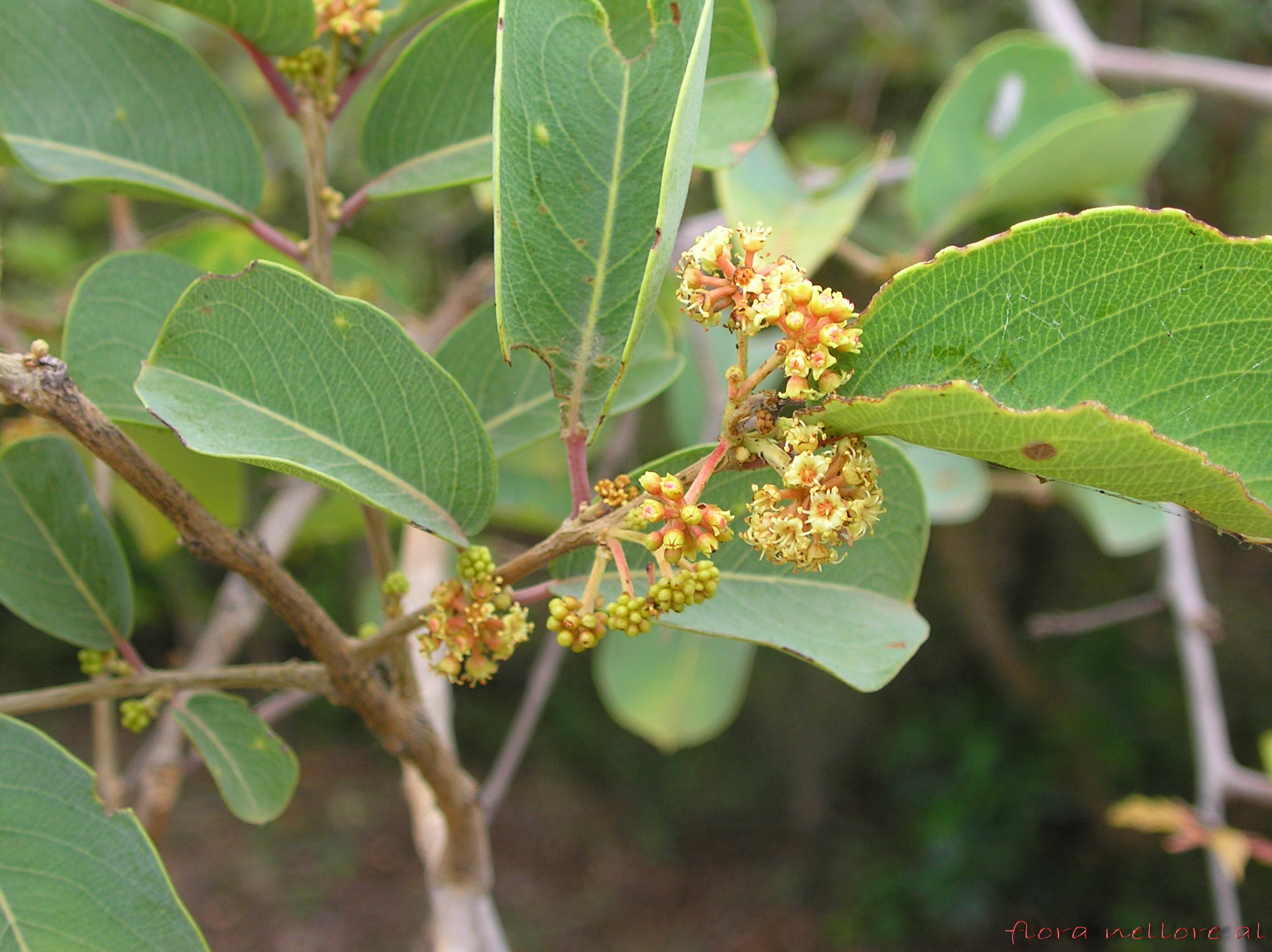 Family: Combretaceae Distribution: A dominant of dry deciduous forests. Limited to Indian sub continent.Photographed at Eastren ghats of A.P India. Deciduous tree, 8-15 mts tall, Wood is used as timber; Bark smooth and grey, Leaves chartaceous, obovate or round; Flowers 4-8mm across, yellow aggregated in cymose heads, axilary, Fruit an achene, winged, compressed, beaked.single seeded. Gum is known as gum ghatti.(Hindi).The gum is an excellent emulsifier and has commercial value. It is used in food industry, petroleum industry and paper industry. Reference: Flora of presidency of Madras by J.S Gamble, ENVIS, Flora of Nellore district By B.Suryanarayana &A.S Rao